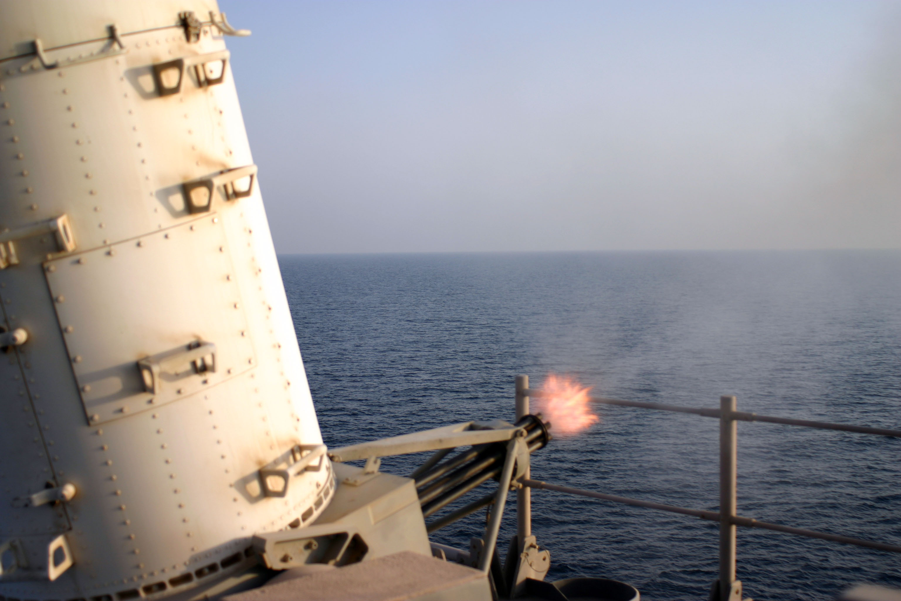 Arabian Gulf (Oct. 17, 2004) - The destroyer USS Spruance (DD 963) conducts a Close-in Weapons System (CWIS) live fire test during a Pre-Aim Calibration Fire (PACFIRE) in the Arabian Gulf. CWIS is a fast-reaction, rapid-fire 20-millimeter gun system that provides U.S. Navy ships with a terminal defense against anti-ship missiles that have penetrated other fleet defenses. Spruance is deployed to the Arabian Gulf in support of the Global War on Terrorism. U.S. Navy photo by Intelligence Specialist 1st Class Ralph F. Gibbs (RELEASED)